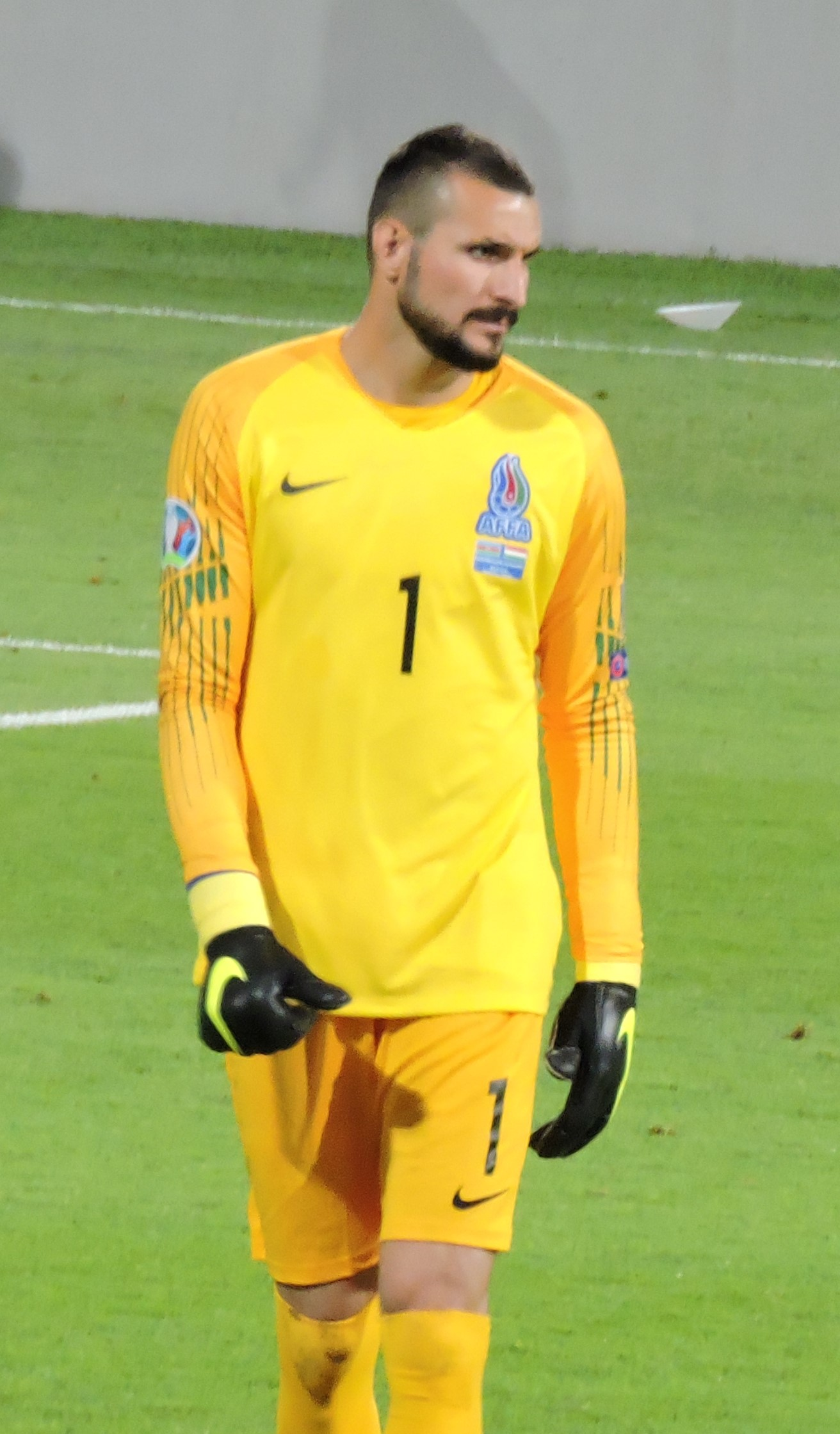 Salahat Aghayev in the Euro 2020 qualification versus Hungary nat. team